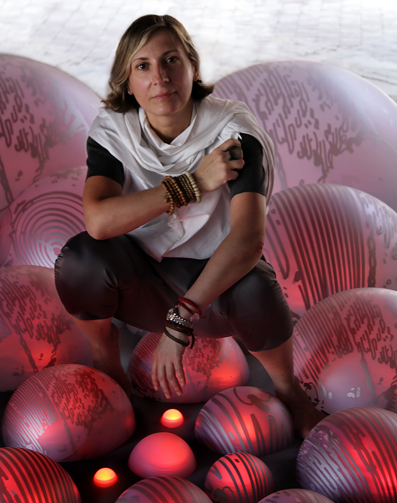 Venice Biennial 2011